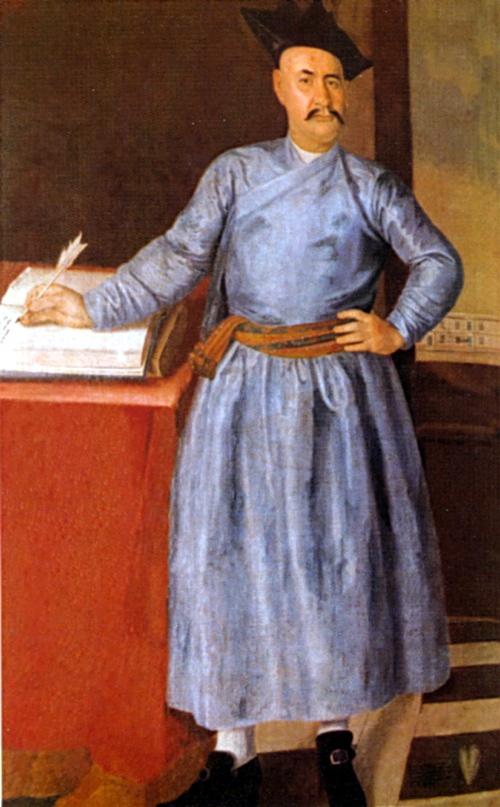 Khoja Petros Voskan-Velijaniants, Julfan merchant. Painted in Madras, India, 1737. Courtesy of All Savior’s Monastery.